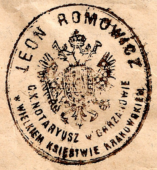 Seal of a Notary Public of the Grand Duchy of Krakow until 1918/Pieczesc notariusza W. Ks. Krakowskiego do 1918 r.